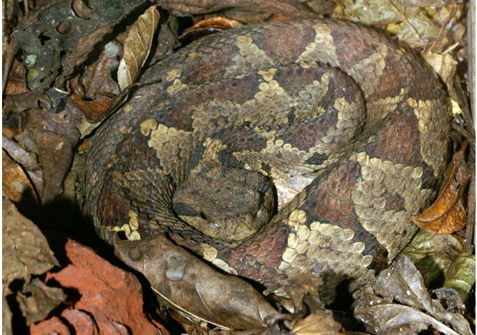 Jumping pitviper